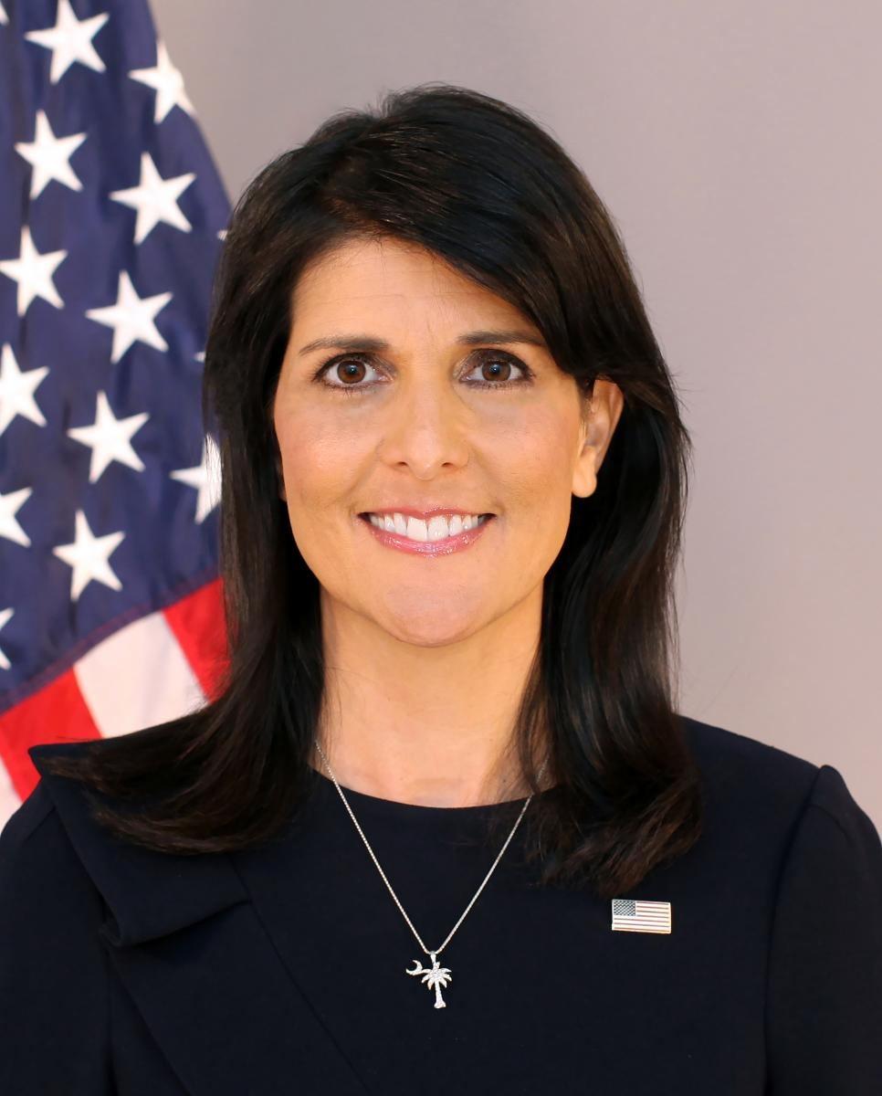 Nikki Haley official photo as the 29th United States Ambassador to the United Nations